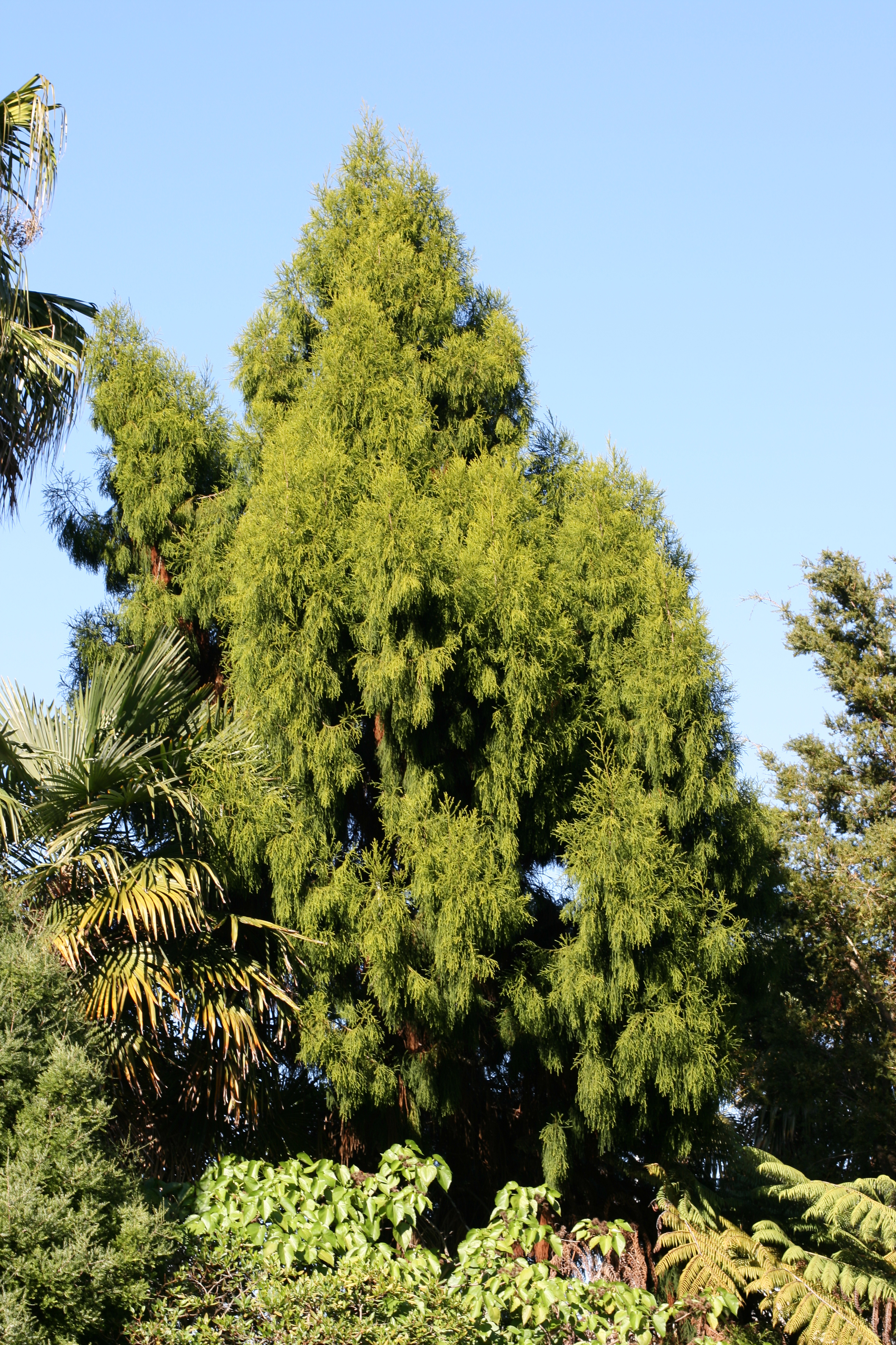 Dacrydium cupressinum, A young Rimu, endemic to New Zealand, growing in cultivation at the University of Auckland, New Zealand.